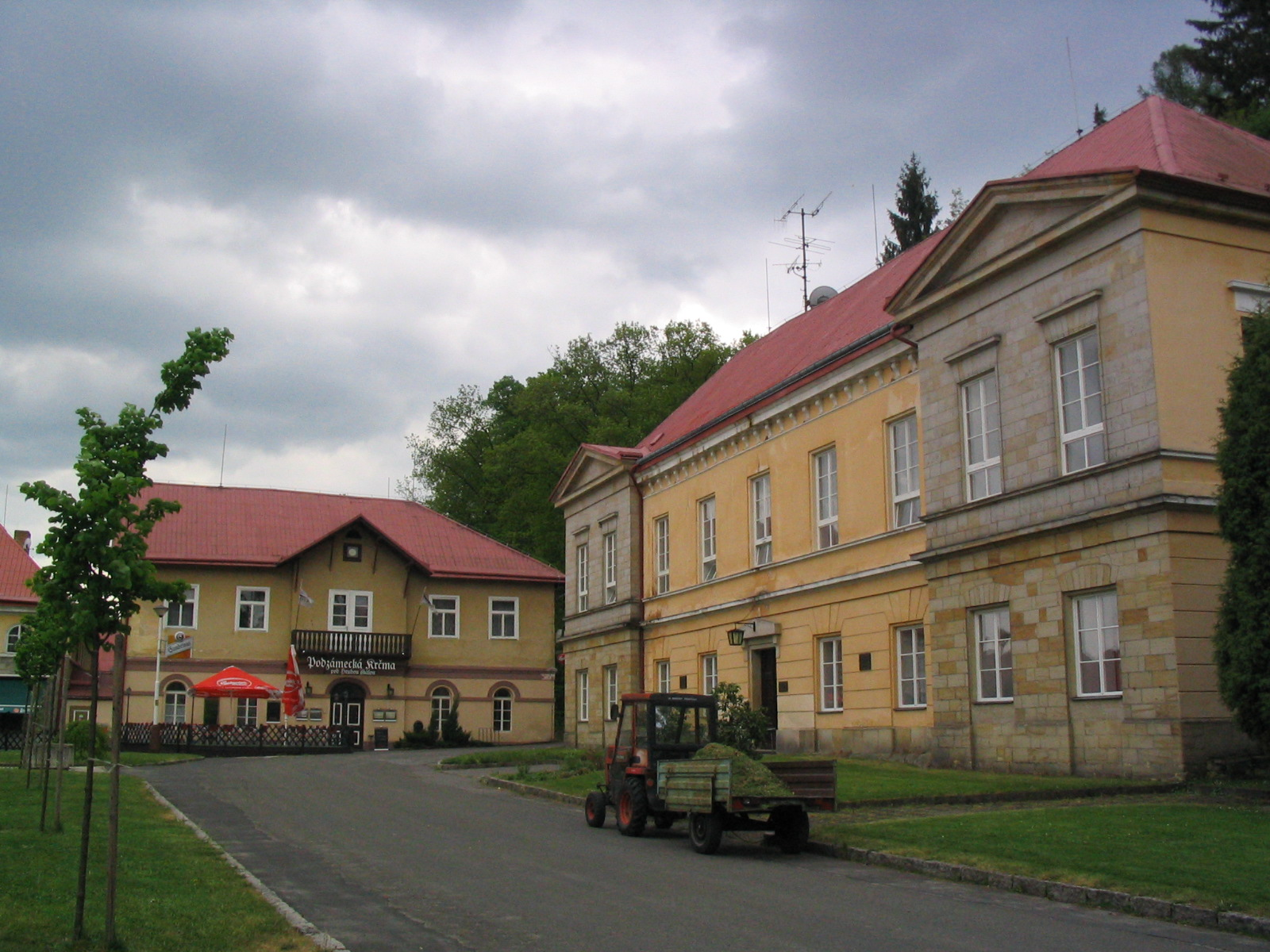 guest house at Sedmihorky, Czech Republic